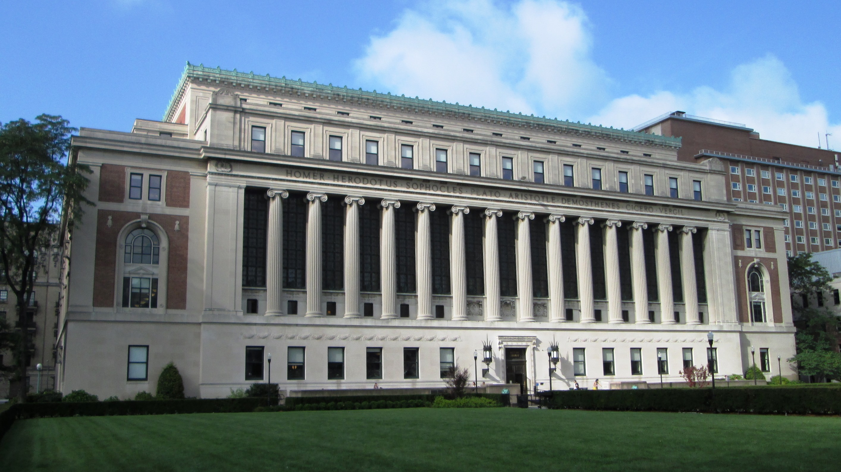 The Nicholas Murray Butler Library, colloquially called Butler Library, on the Morningside Heights campus of Columbia University at 535 West 114th Street, the university's largest single library. It was built in 1931-34 and was designed by James Gamble Rogers in the Neoclassical style. Originally called "South Hall", it was named for Nicholas Murray Butler, who was president of Columbia from 1902-1945, who first proposed the building when plans to expand the Low Memorial Library did not come to fruition. (Source: AIA Guide to NYC (5th. ed.))